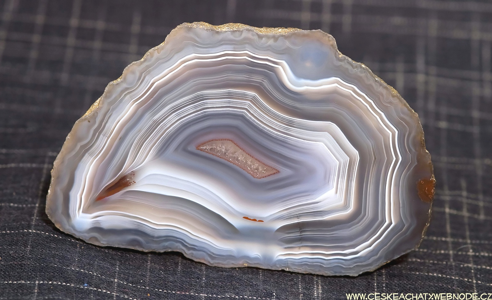 HiRes picture of czech agate from Nova Paka locality. The real size of the stone is approx 6x4x3cm